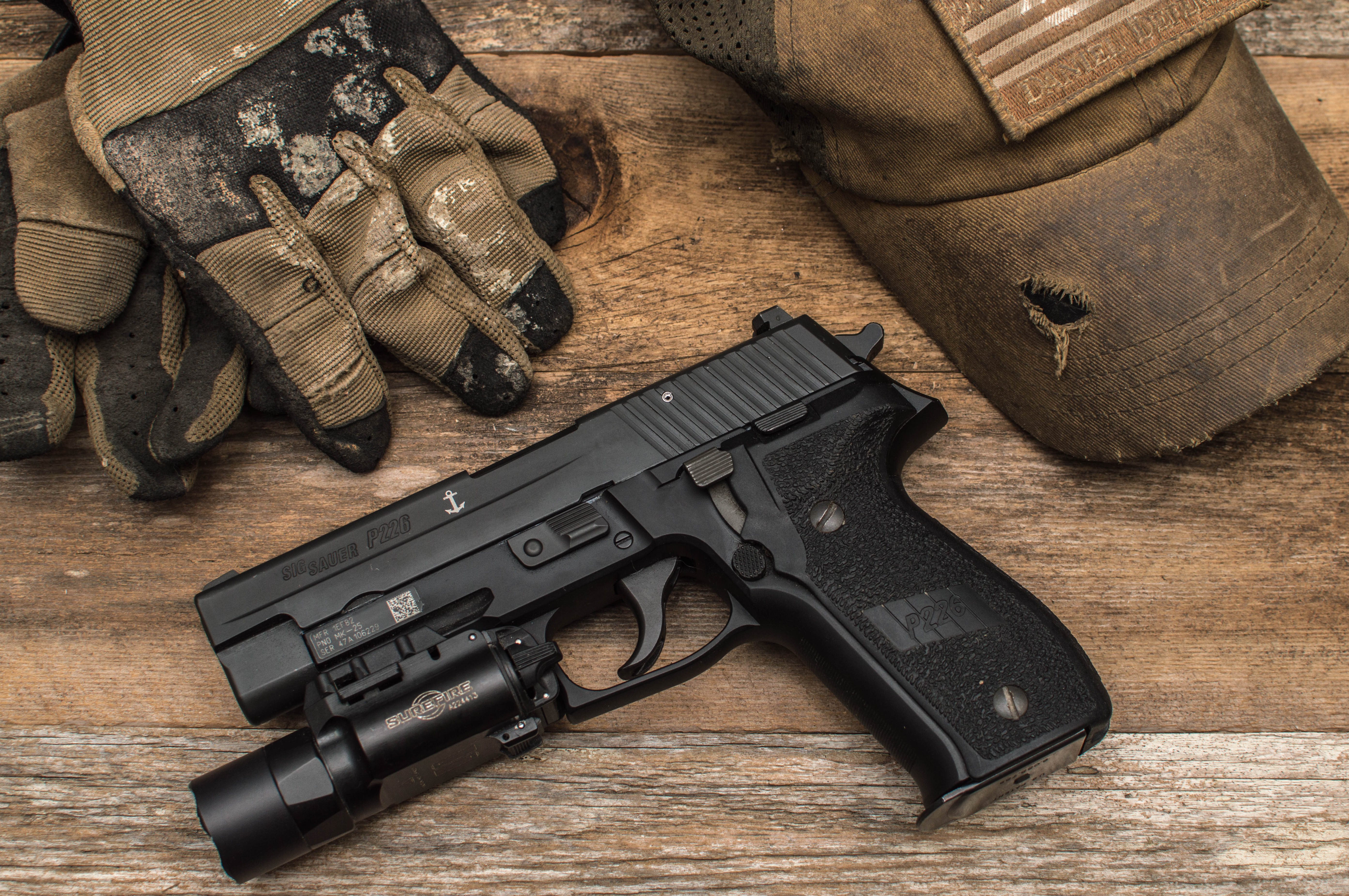 Sig Sauer MK25 with a Surefire X300 Ultra flashlight on its 1913 rail.